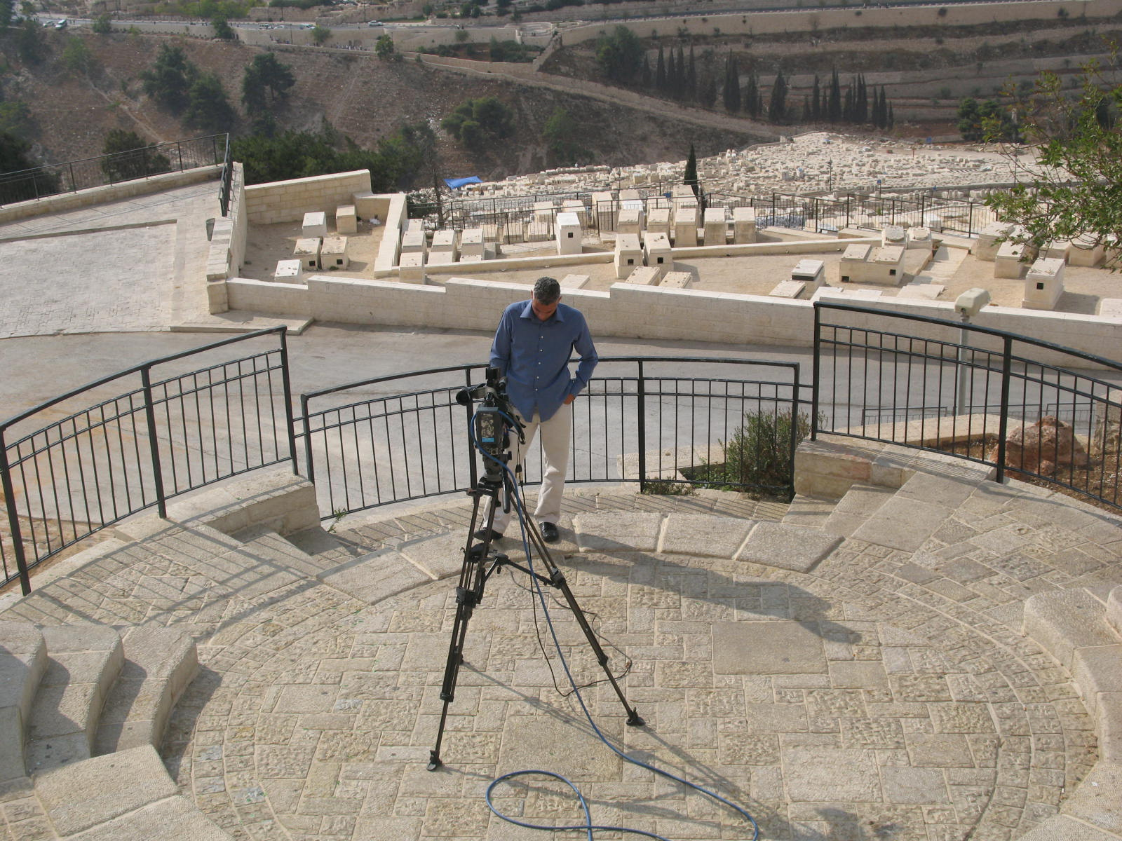 Elyas karram at Aljazeera, from Jerusalem. 2009